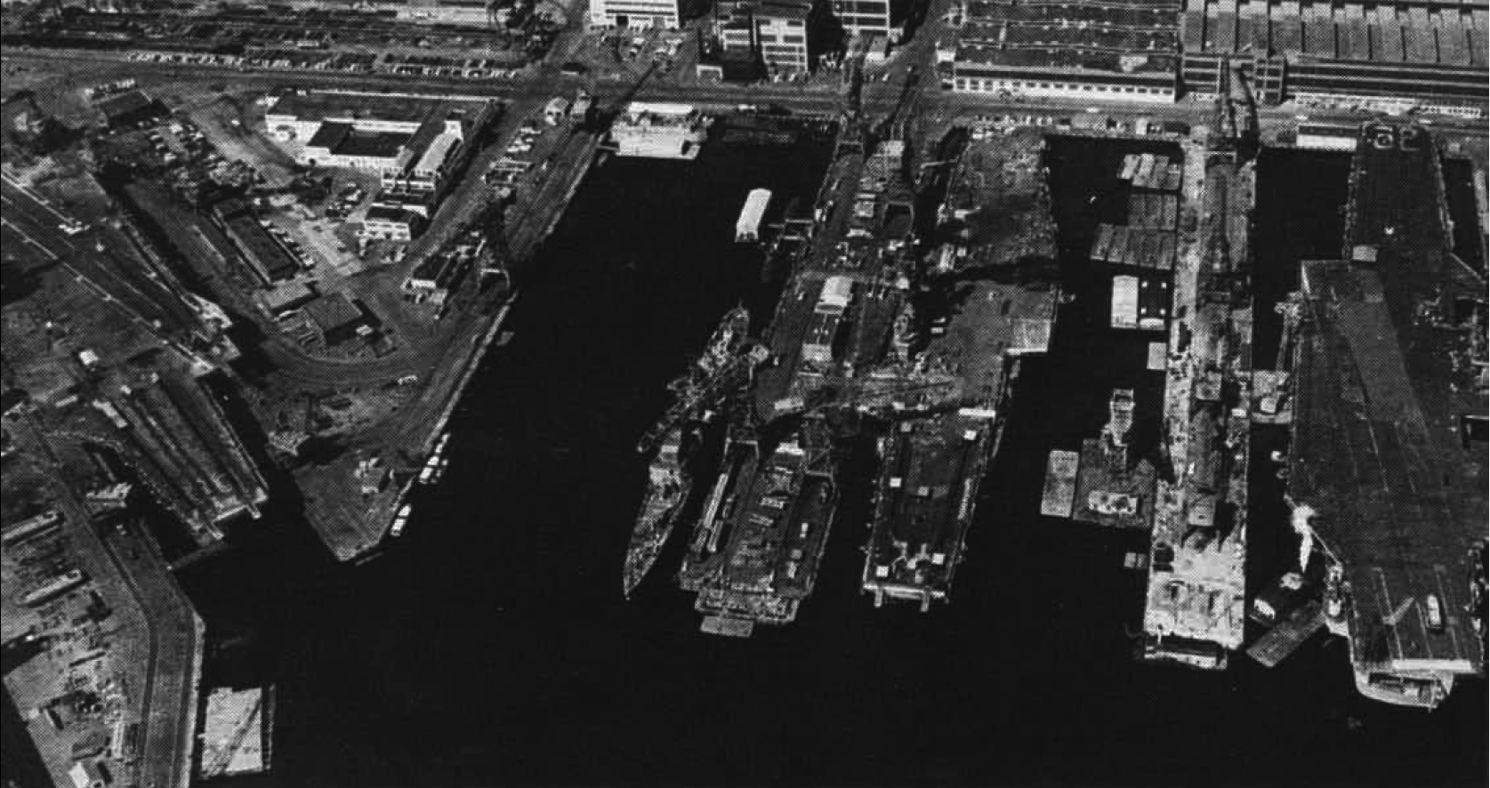 Aerial view of Norfolk Naval Shipyard at Portsmouth, Virginia (USA), in 1969 with three aircraft carrier undergoing overhaul. To the left USS America (CVA-66) is visible in the dry dock. In the center is the USS Franklin D. Roosevelt (CVA-42), which got her forward centerline elevator replaced by a deck edge elevator (starboard forward). To the right is USS Independence (CVA-62).